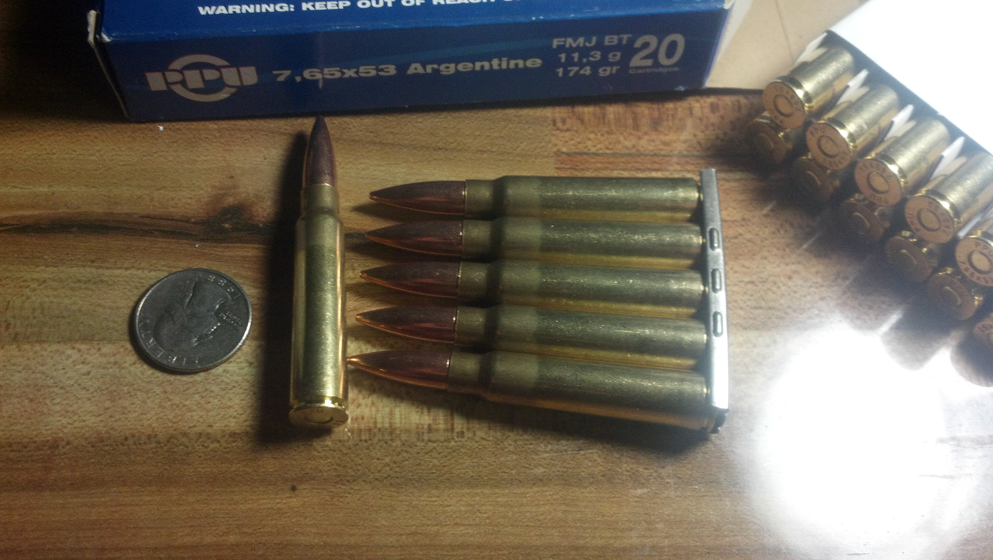 7.65 Argentine Ammunition